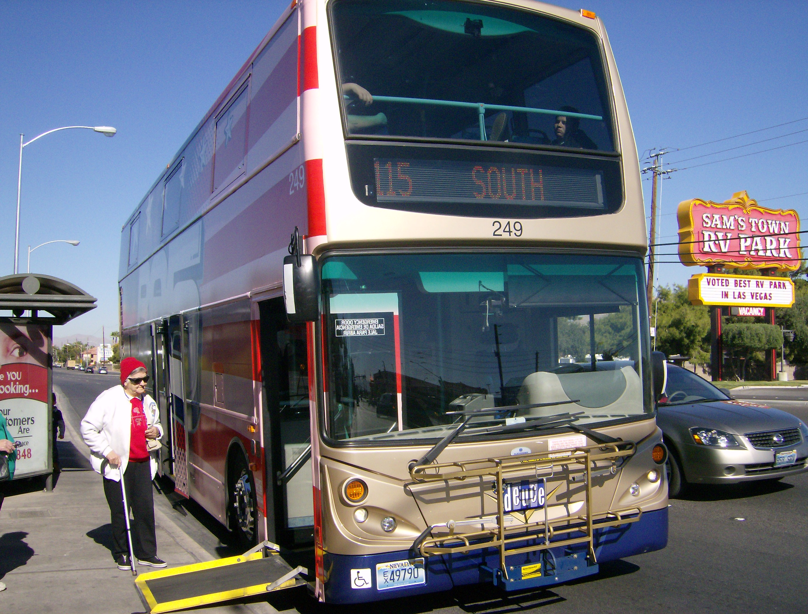 A 2005 Alexander Dennis Enviro500 operated by RTC Transit (formerly Citizens Area Transit) on "The Deuce" in Las Vegas, Nevada.